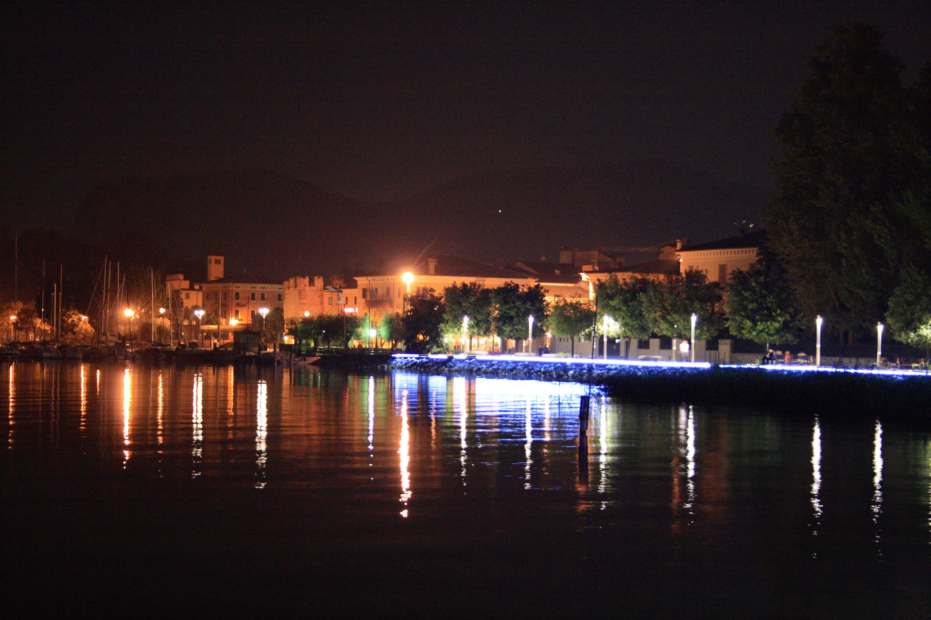 Bardolino by night (2008)